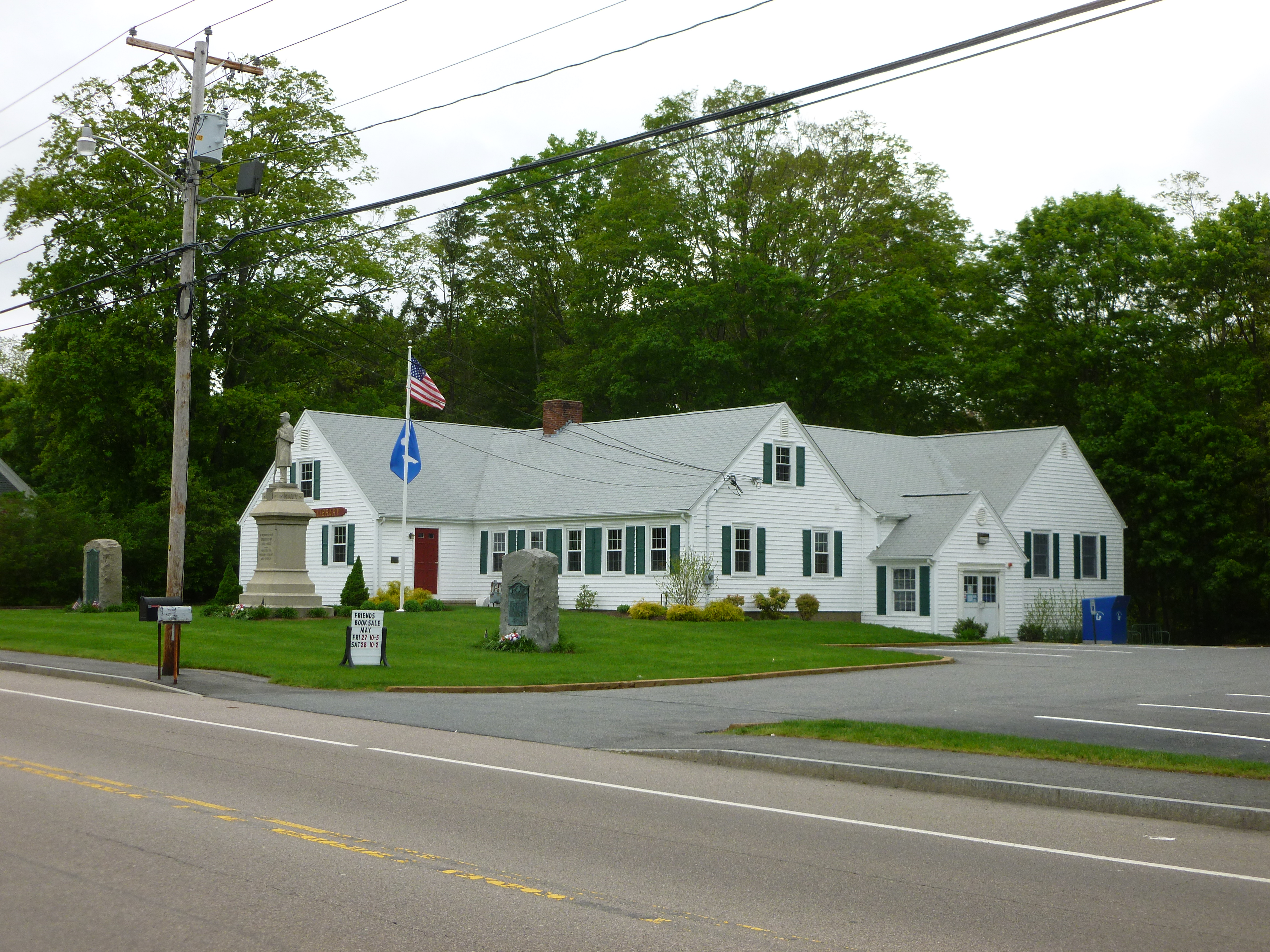 Raynham Public Library, located at 760 South Main Street, Raynham, Massachusetts 02767. Southeast (front) and northeast sides of building shown.